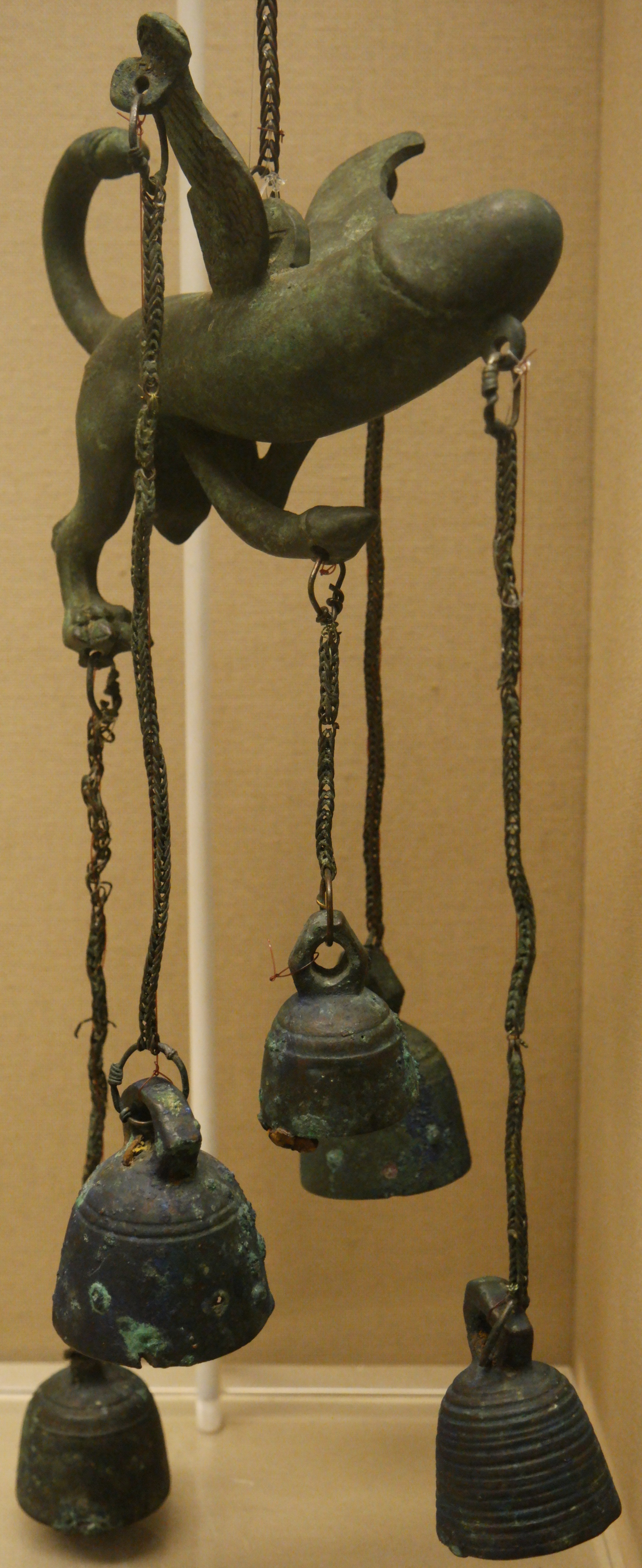 Bronze tintinabulum hung with small bells to function as a wind chime. It is decorated with a winged lion-phallus which was believed to provide magical protection against evil and to bring good luck to the household. Date 1st-Century Length: 13.45 centimetres On display: G69/dc12 British Museum: 1856,1226.1086 Title: Bronze phallic wind chime (tintinabulum)